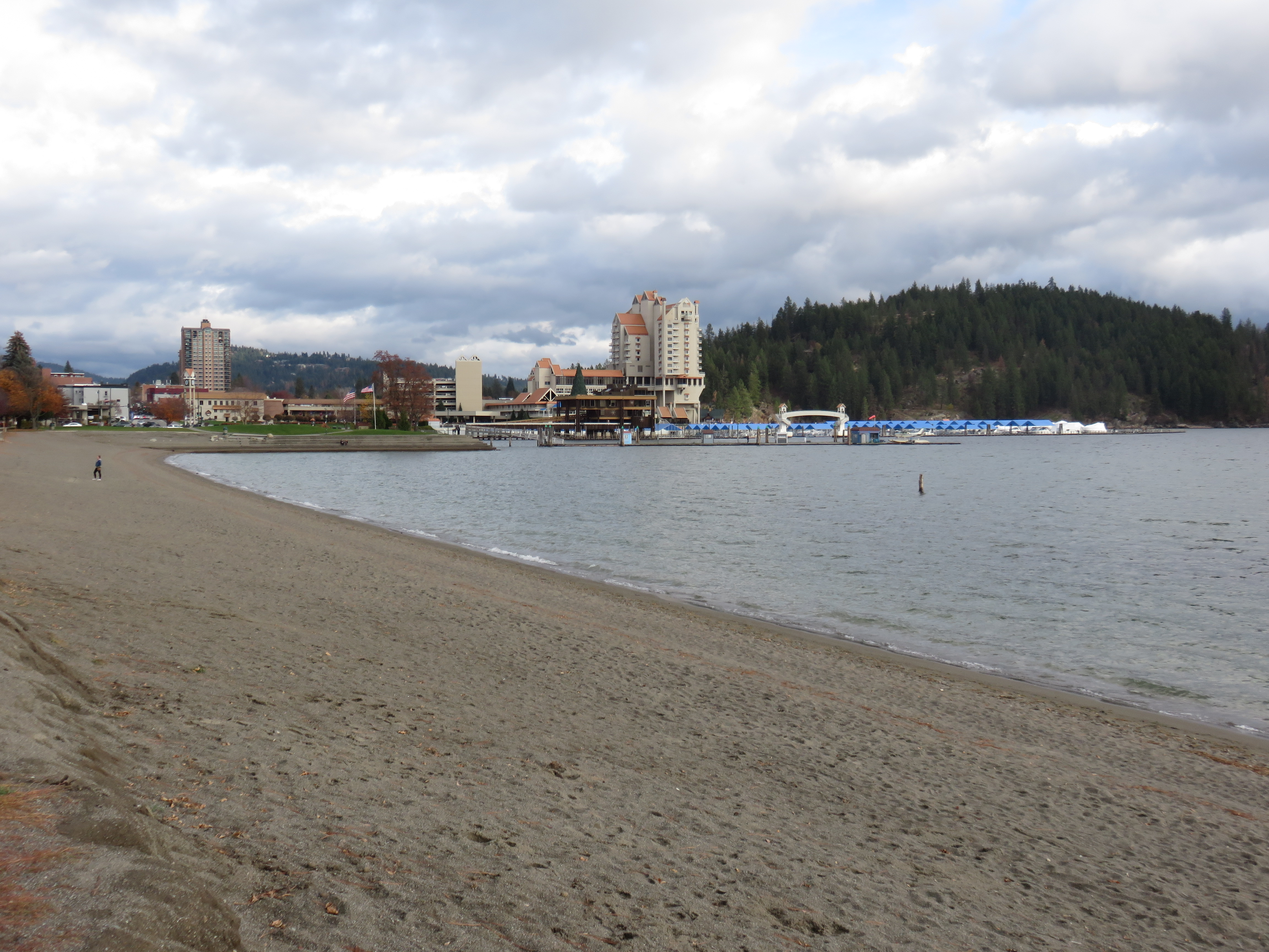 Coeur d'Alene, Idaho waterfront in 2018